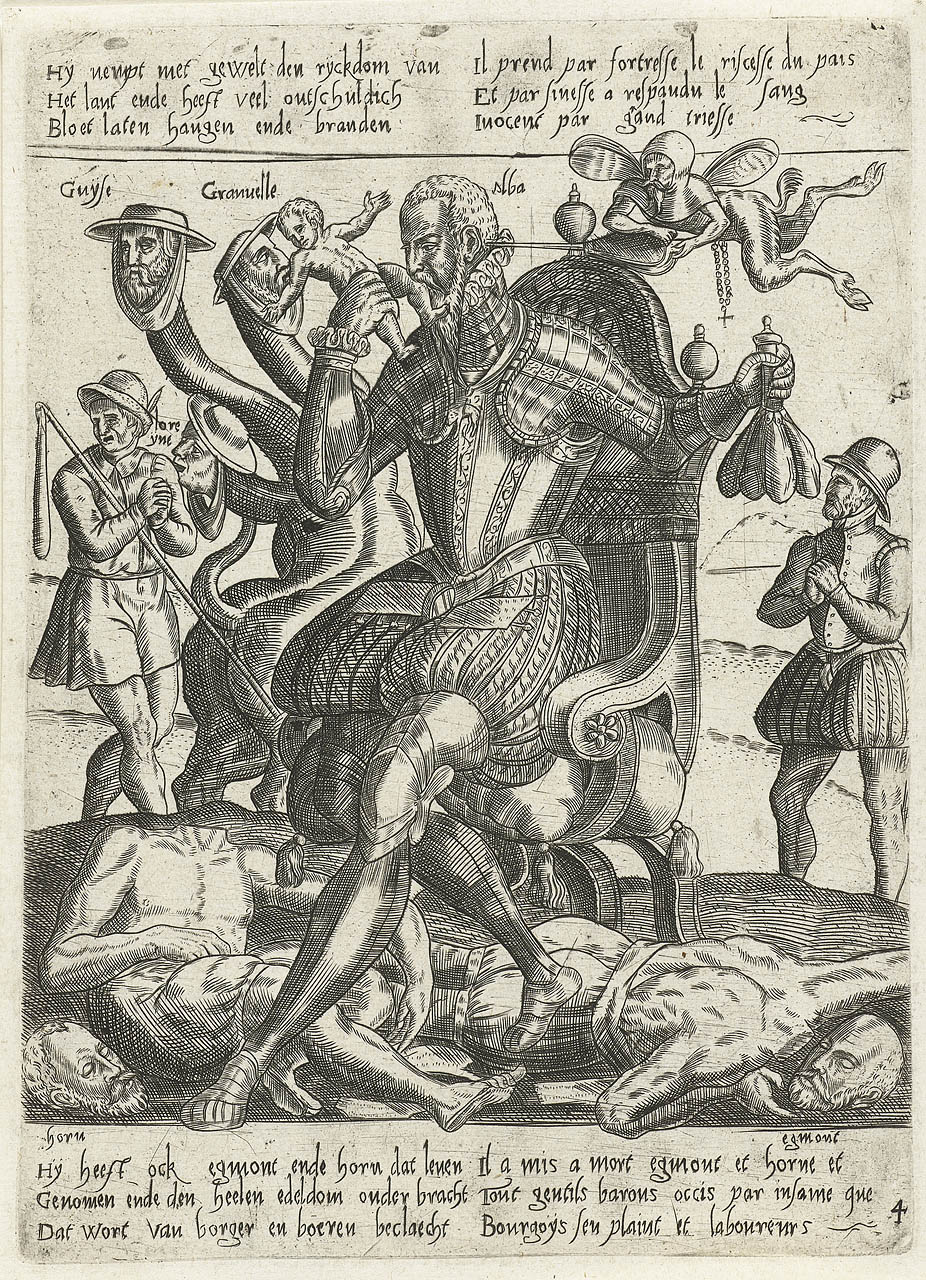 Alba kills innocent inhabitants of the land from the collection Alba's government in the Netherlands and the following tyranny - The Duque is represented eating a child with one hand, while he holds a money purse with the other; behind, a hydra with the heads of Granvelle and the cardinals of Guise and Lorraine; at his feet, the headless bodies of Egmont and Horn; a winged demon with a rosary, blows air into the Duque's ear with a bellows; on the left, a peasant and, on the right, a burgois, lament.